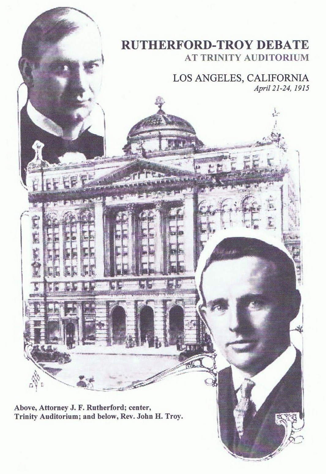 Debate J. H. Troy vs. J. F. Rutherford, April 1915, Trinity Auditorium Los Angeles